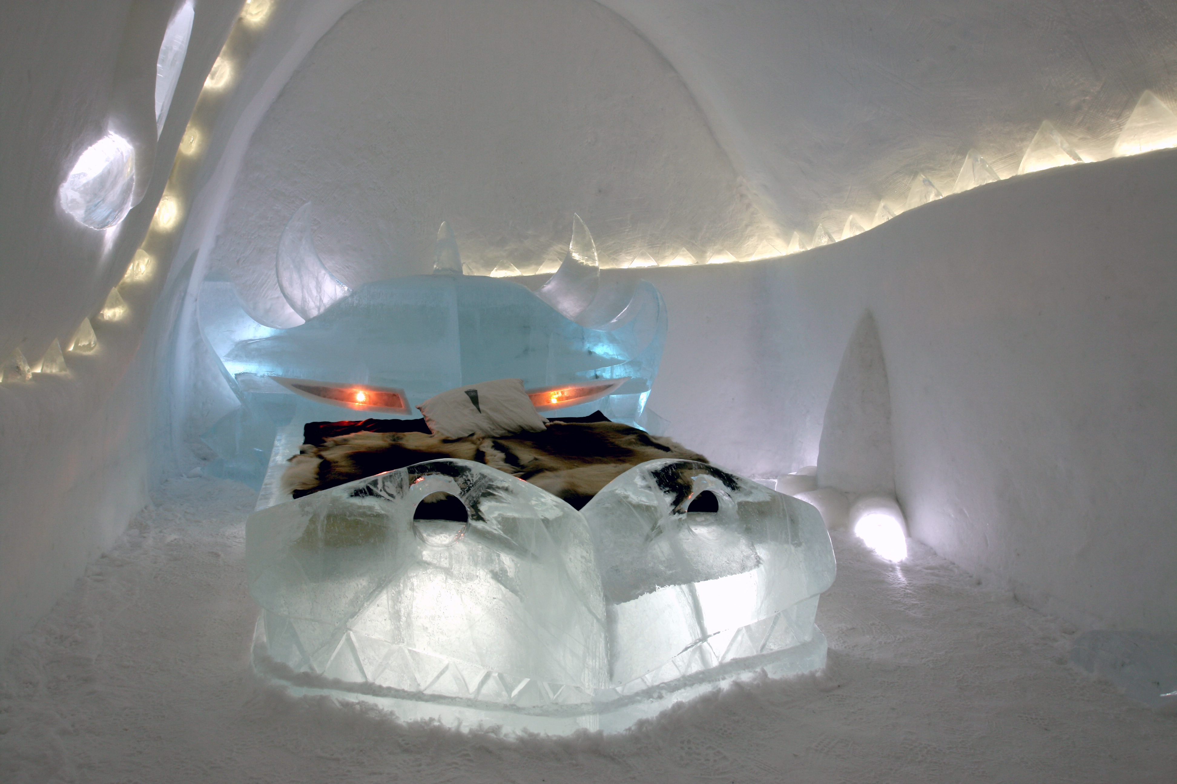 'The Banished Dragon' Art suite in ICEHOTEL Jukkasjärvi, Sweden. Made by Valli Schafer & Barra Cassidy.